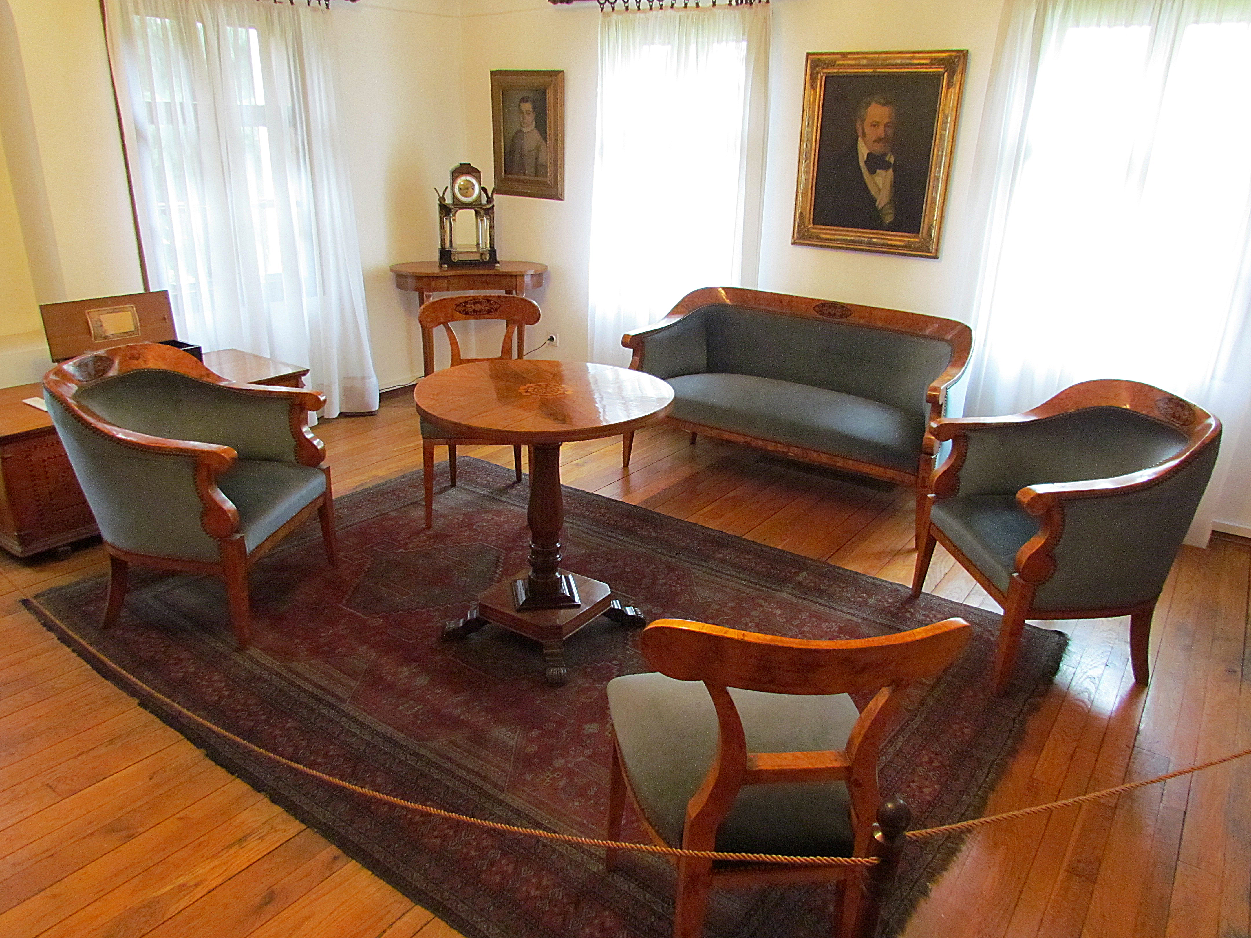 Barlovac Family early Biedermeier Draving Room, Princess Ljubica's Residence